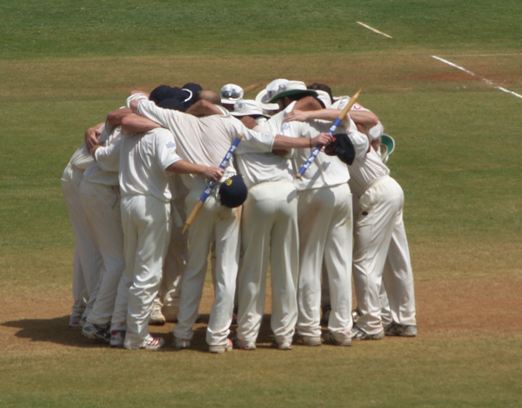 England huddle to celebrate victory over India in Mumbai, March 2006.